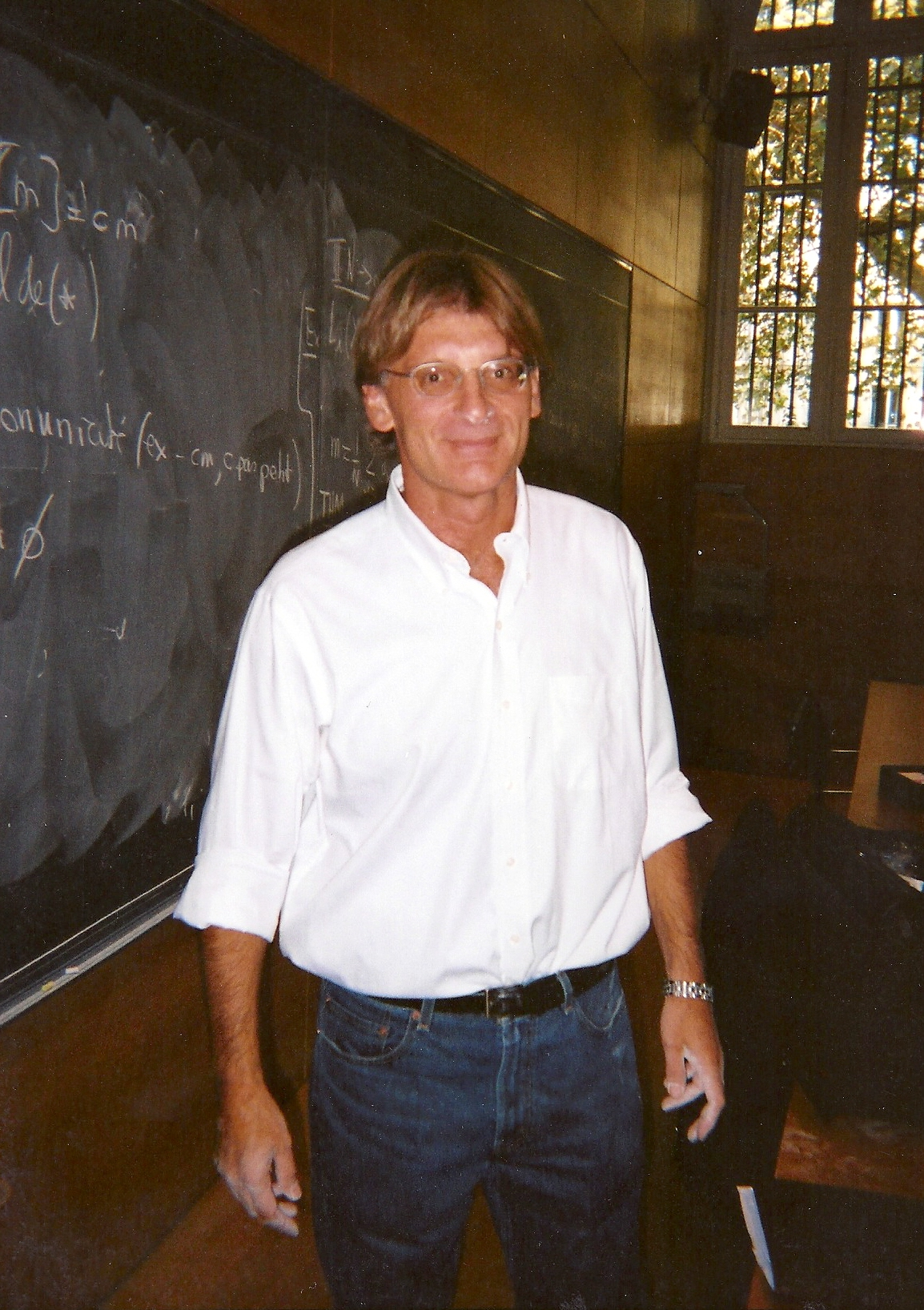 Pierre-Louis Lions par Philippe Binant